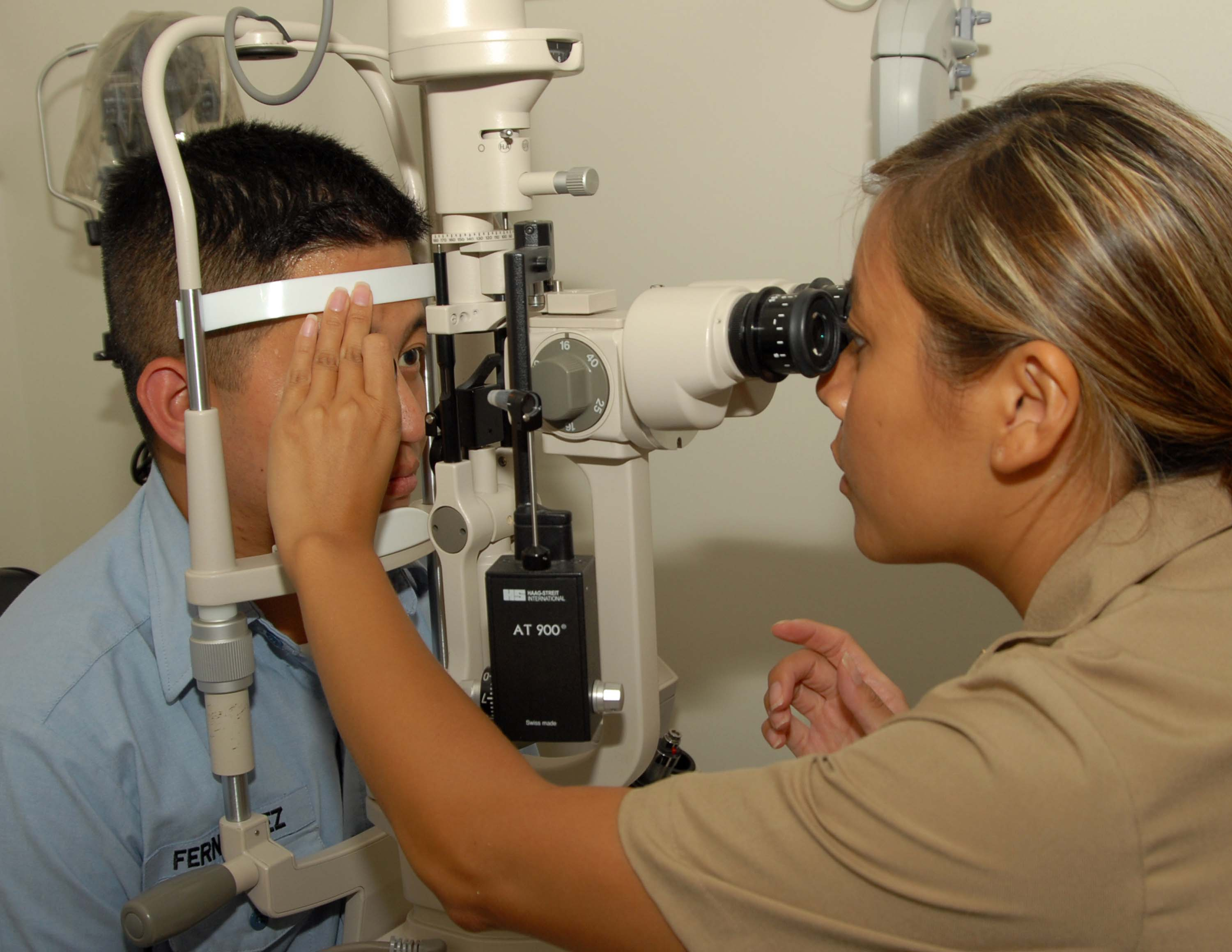 SAN DIEGO (Sept.1, 2009) Navy optometrist Lt. Thuong Le, from Dallas, administers a slit lamp eye exam to Ship's Serviceman Seaman Alfernan Fernandez at Branch Medical Clinic Naval Base San Diego. The exam is designed to view into the front and back of the eye structures in details. (U.S. Navy photo by Mass Communication Specialist 3rd Class Rialyn Rodrigo/Released)